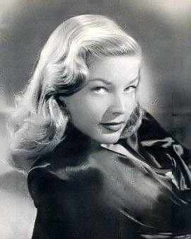 Cropped and digitally enhanced detail of a pin-up photo of Lauren Bacall for the November 24/26, 1944 issue of Yank, the Army Weekly, a weekly U.S. Army magazine fully staffed by enlisted men.